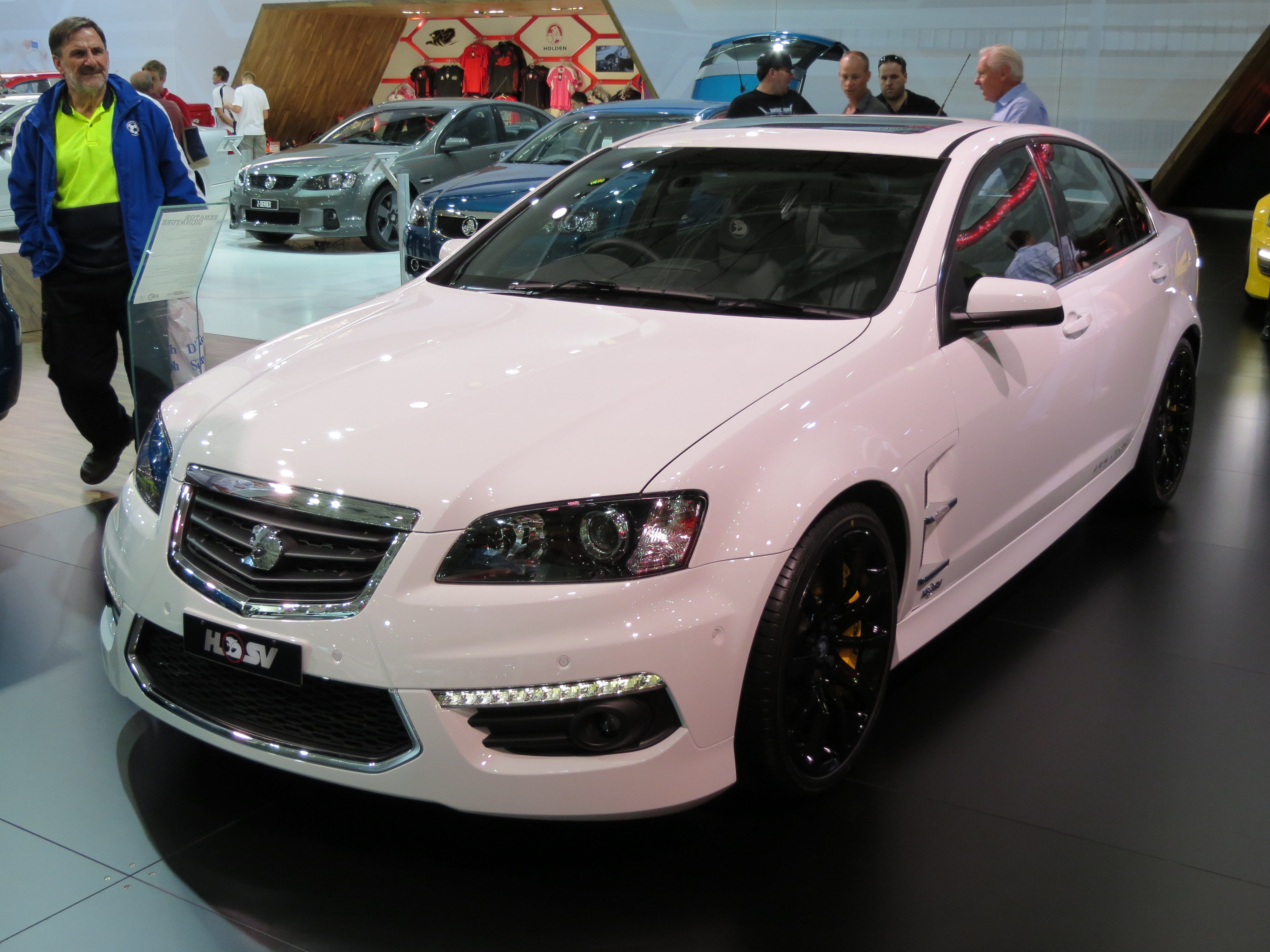 2012 HSV Senator (E Series MY12.5) Signature sedan. Photographed at the 2012 Australian International Motor Show, Sydney, New South Wales, Australia.